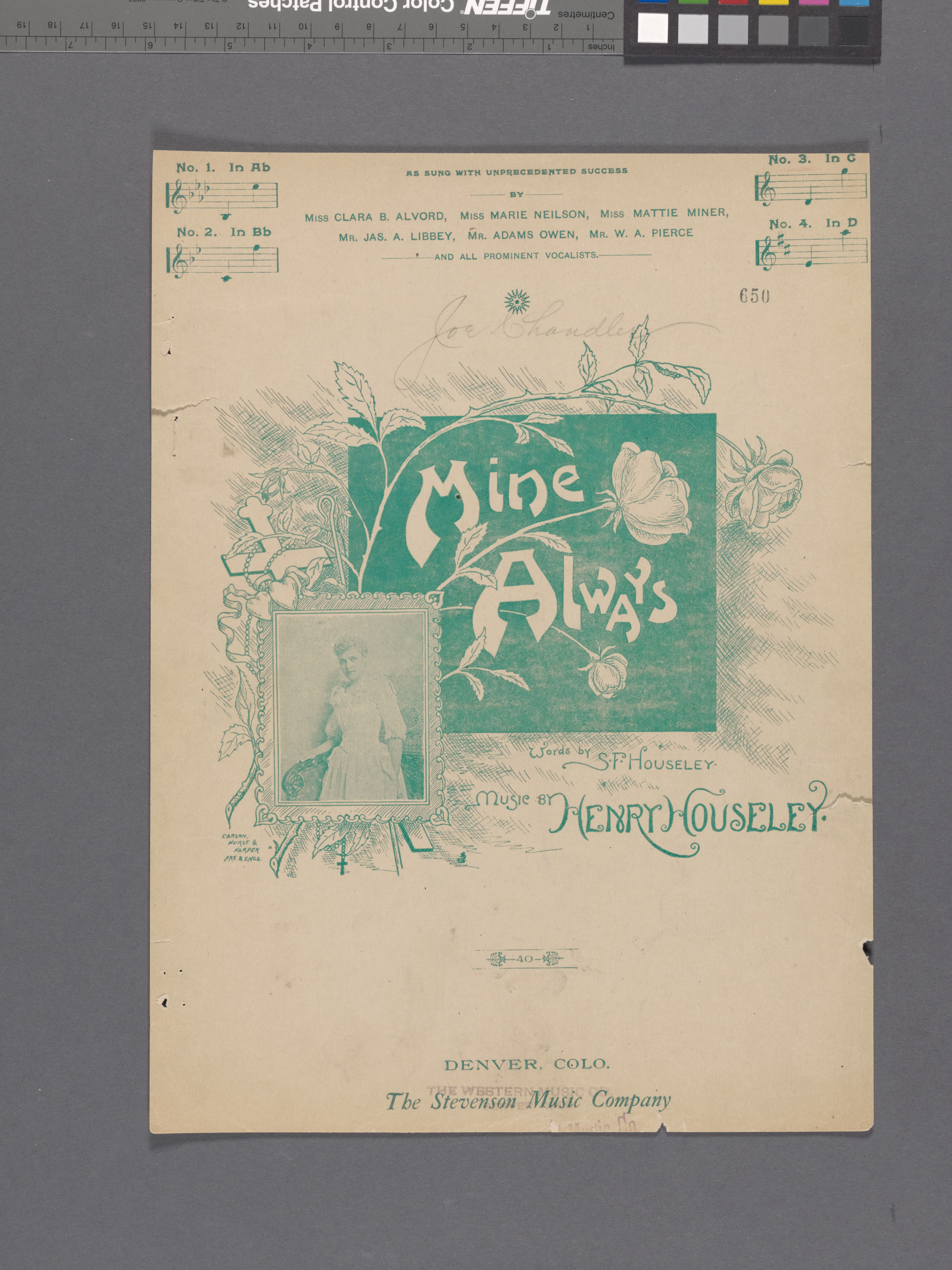 Cover includes the portrait of an unidentified woman standing in a formal dress, her hand resting on a sofa. On the cover: As sung with unprecedented success by Miss Clara B. Alvord, Miss Marie Neilson, Miss Mattie Miner, Mr. Jas. A. Libbey, Mr. Adams Owen, Mr. W. A. Pierce and all prominent vocalists. Statement of responsibility : words by S.F. Houseley ; music by Henry Houseley.